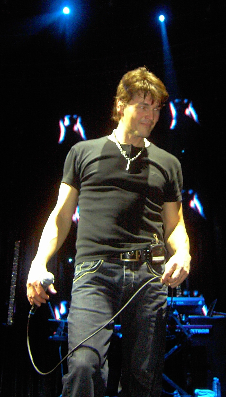 Morten Harket (a-ha) live at Cologne, 29th Oct. 2005